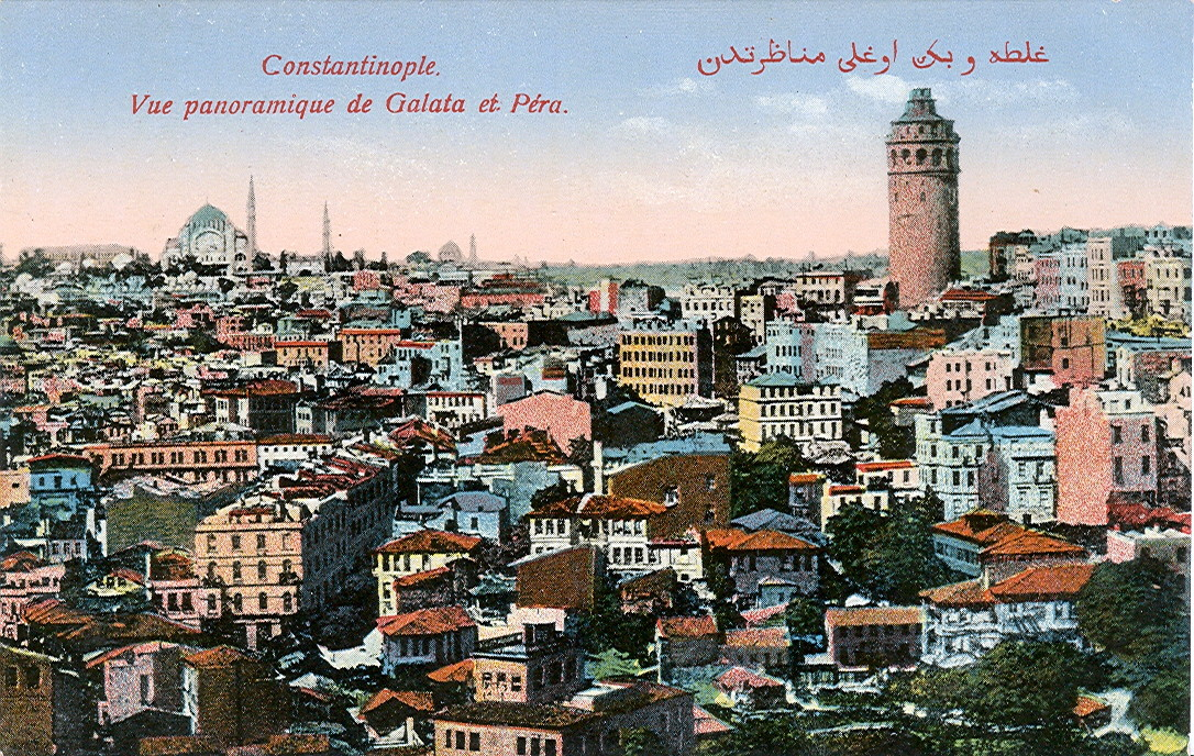 Postcard, undated ( ca.1914 ). Title: "Constantinople - Panoramic view of Galata and Pera"